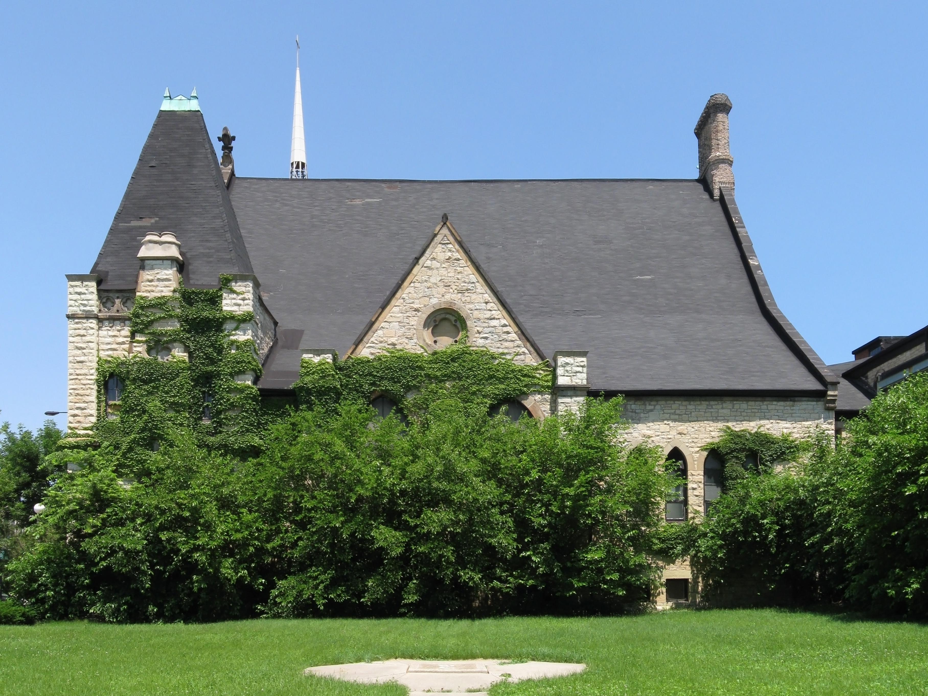 Olivet Baptist Church at Bronzeville in Chicago, USA